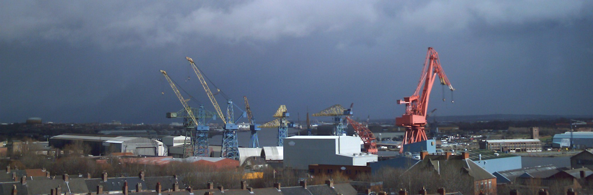 A view of the Swan Hunter shipyard in Wallsend, England in March 2007, a few months after its sale, before the cranes were dismantled. The photo is taken from a skyscraper west of the yard looking east. The low grey building on the left is the main hangar of the dockyard. Behind the leftmost cranes the river Tyne can be seen as it rounds its final bend and continues towards the sea. The cranes are lit by the setting sun cutting under the black cloud layer that forms the backdrop. I took this photo myself; it is also visible at